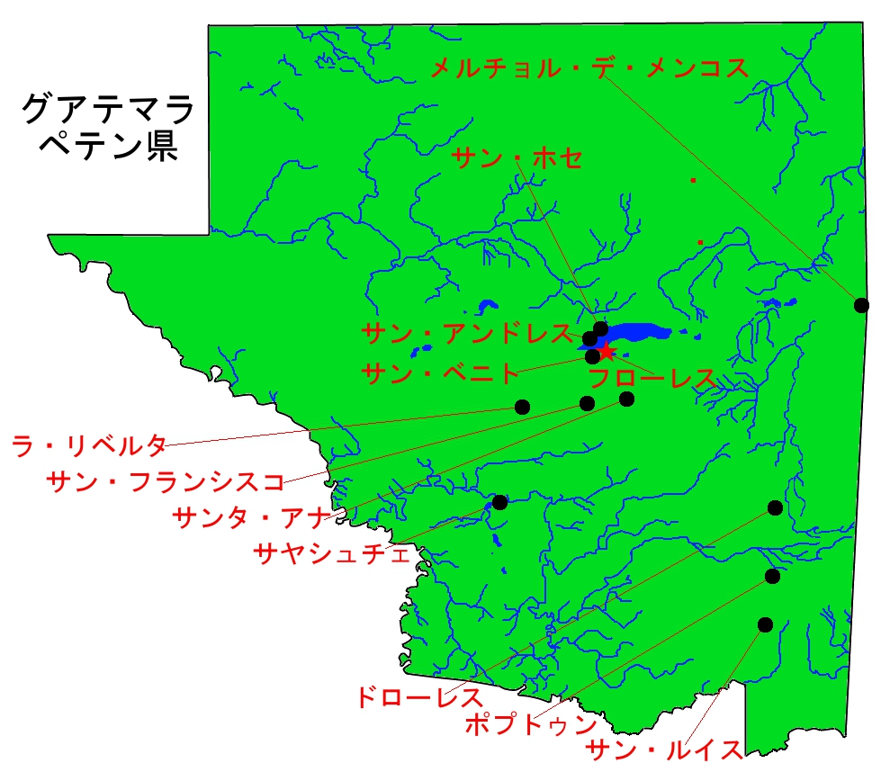 Map of Petén Department in Guatemala with watercourses and major settlements and Japanese name. Also, there is XCF version of this picture. It's contain "Layer data". Please check it.